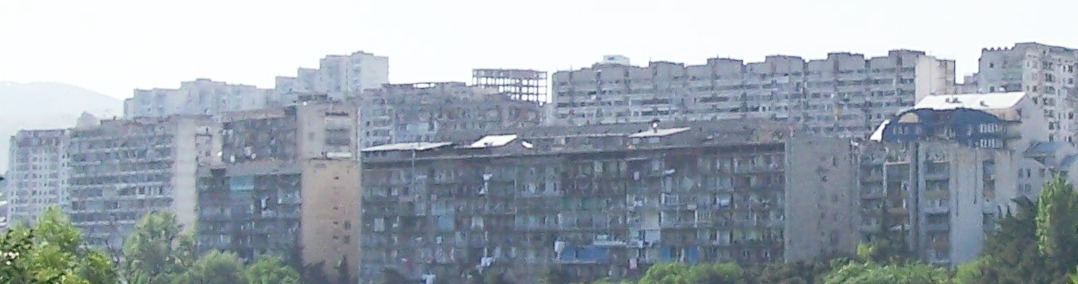 If you look closely, you can see that the facades of these buildings are in a sorry state, remnants of the Soviet era.